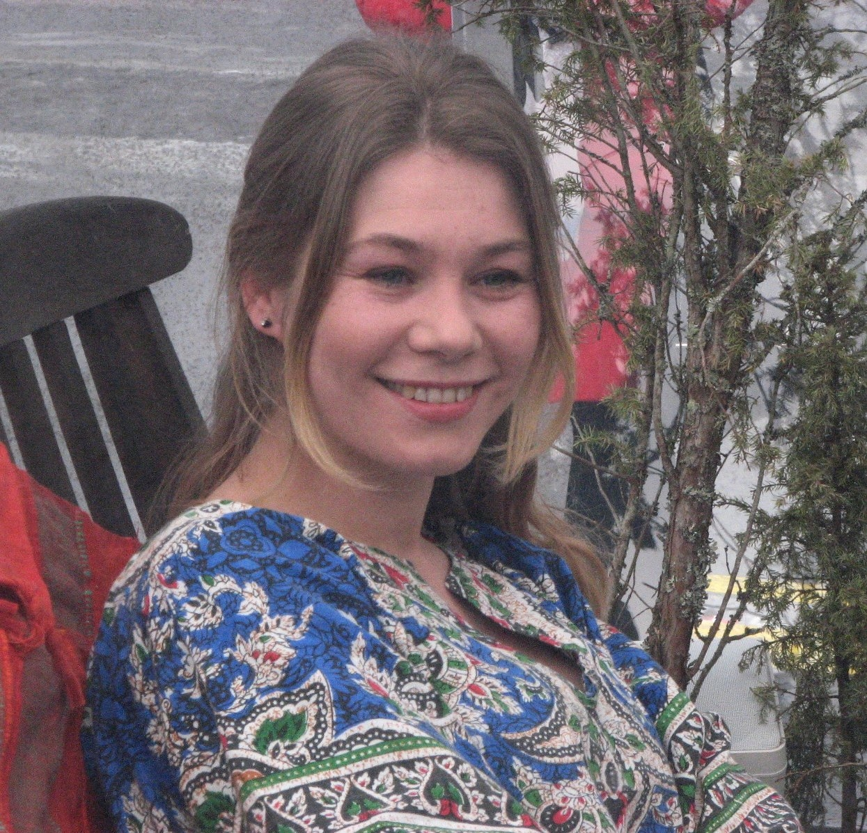 Kata-Riina Luide is Estonian actress.